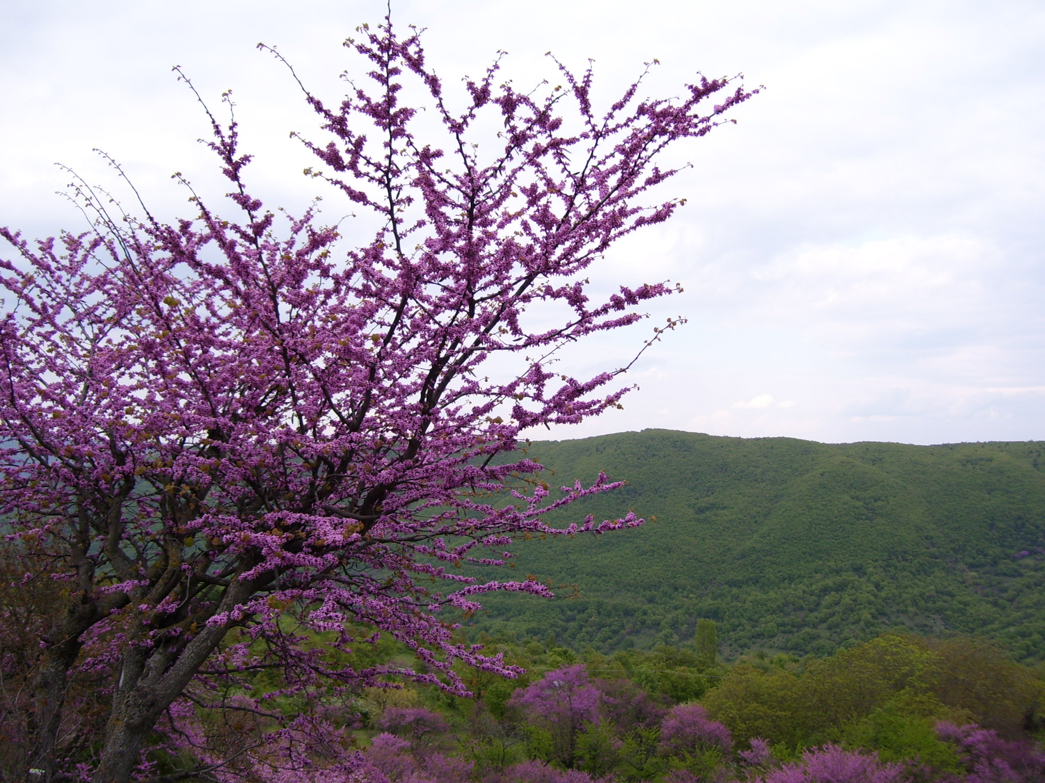 Koutsoupia (Cercis siliquastrum)